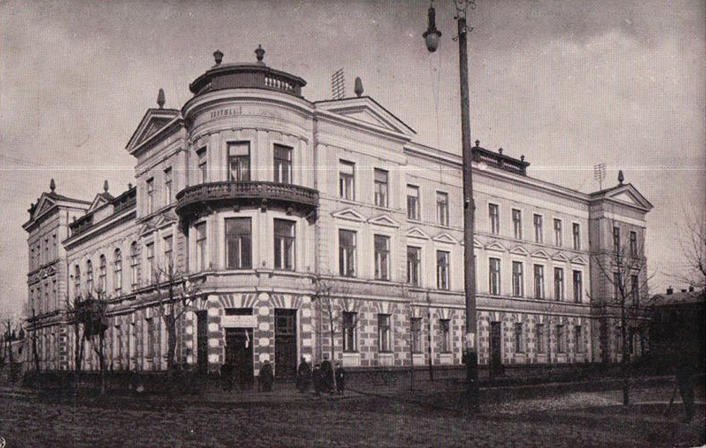 District Court Building in Radom, Poland (1900s)